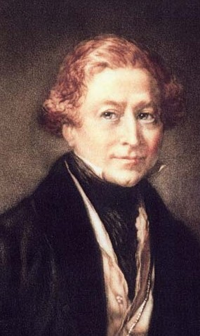 Robert Peel